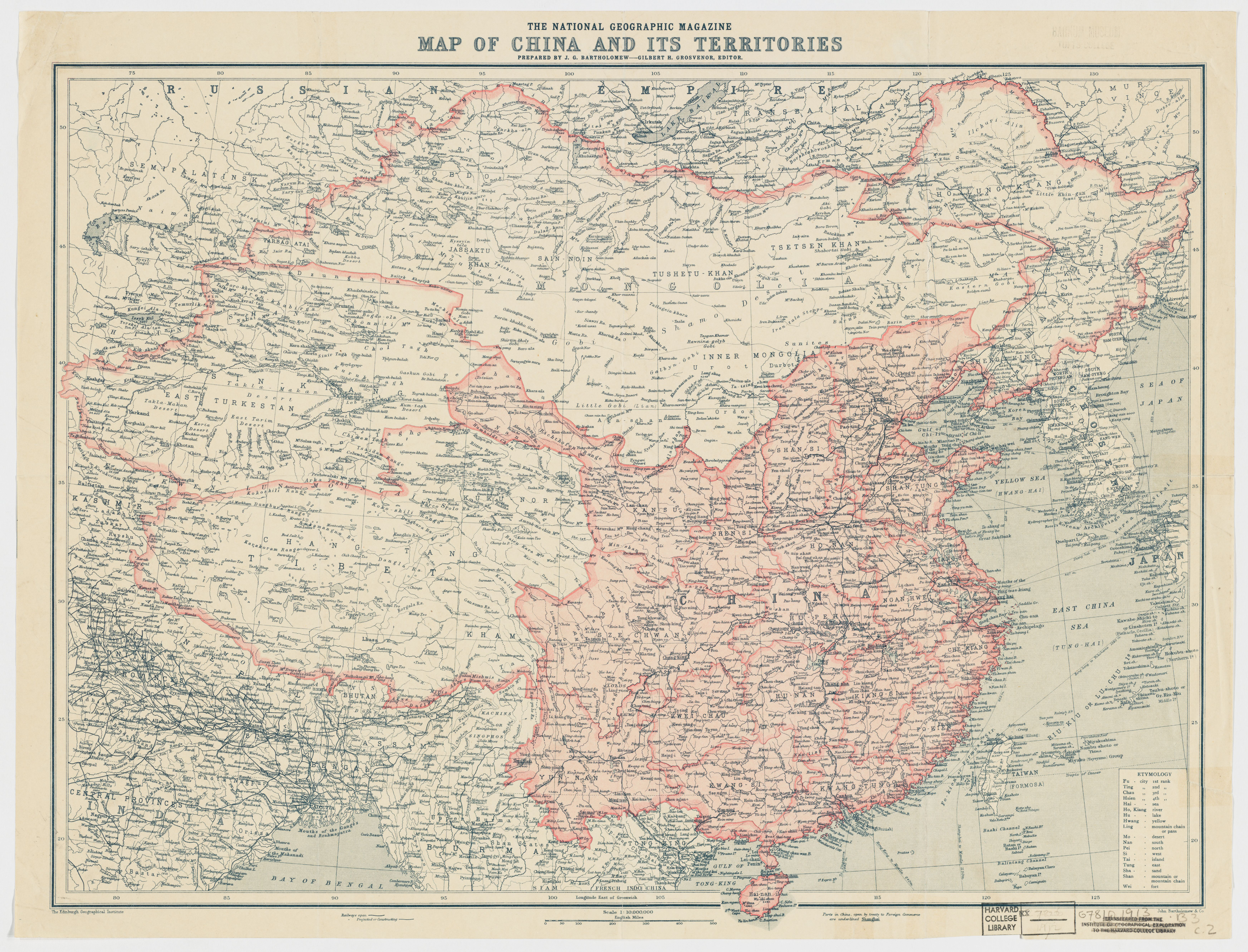 The National Geographic Magazine map of China and its territories中文（中国大陆）: 中国地图，出自1912年美国《國家地理雜誌》